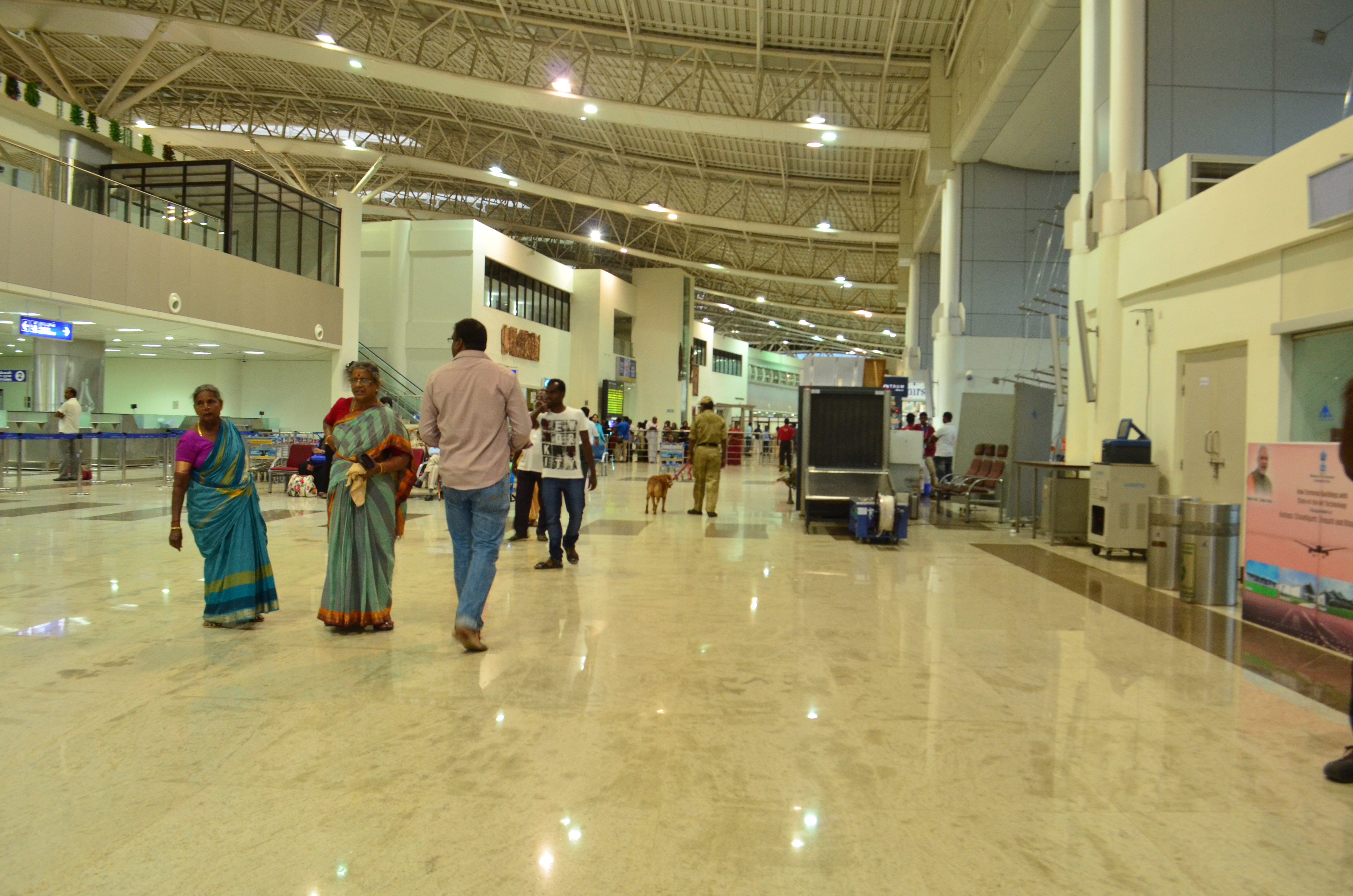 Madurai Airport in 2016